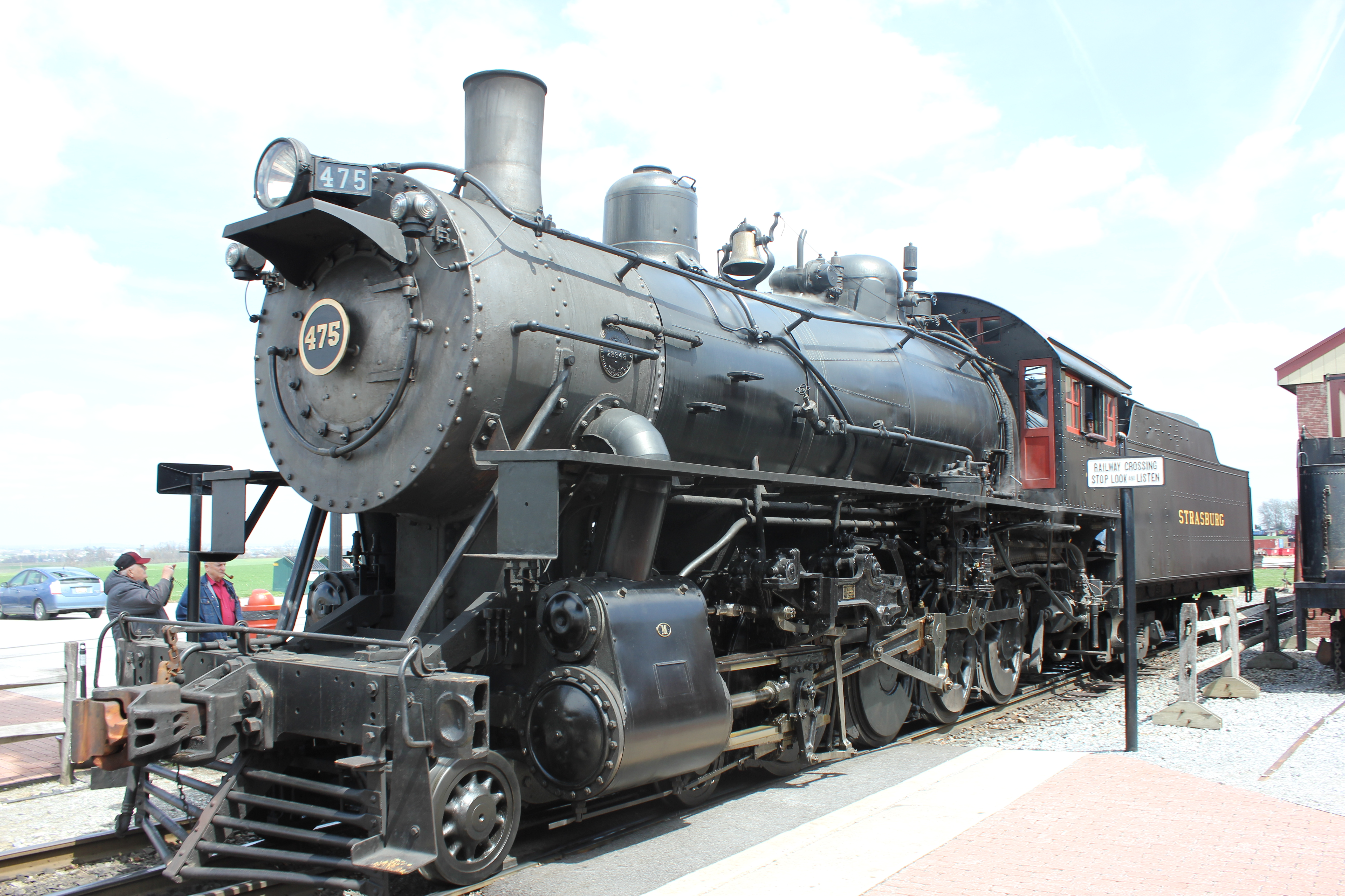 Strasburg Rail Road #475. April 17th, 2014